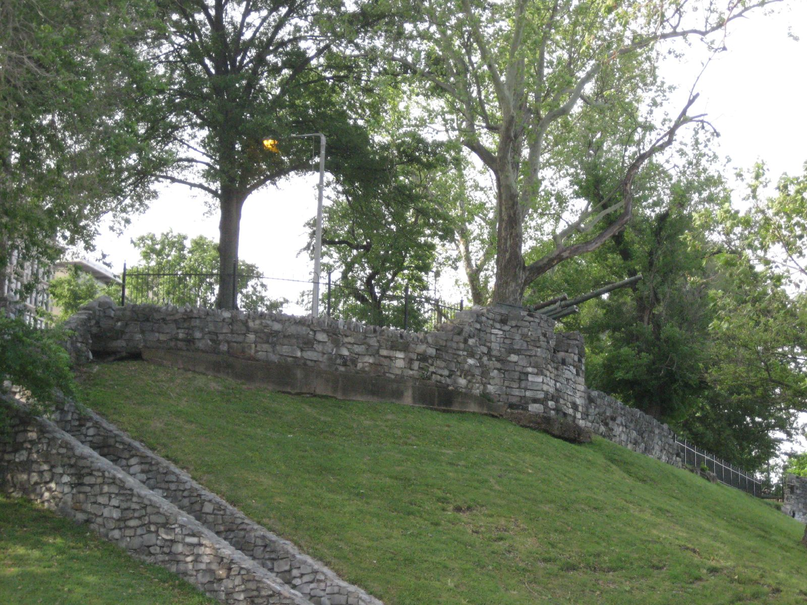 Confederate Fort that used to the defend the Mississippi from the evil Union forces. :)